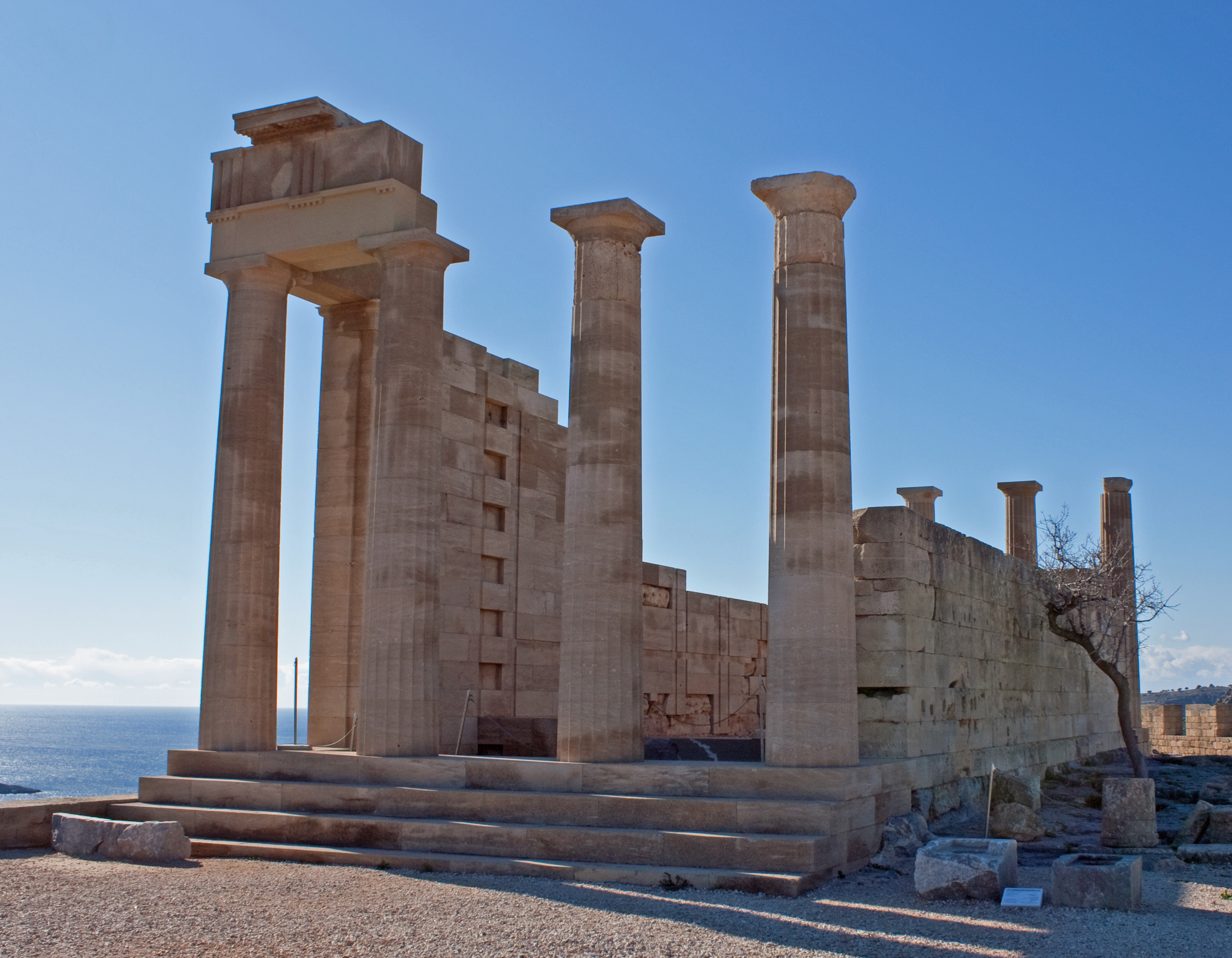 Temple of Athena Lindia from the north at the acropolis of Lindos in Rhodes, Greece.